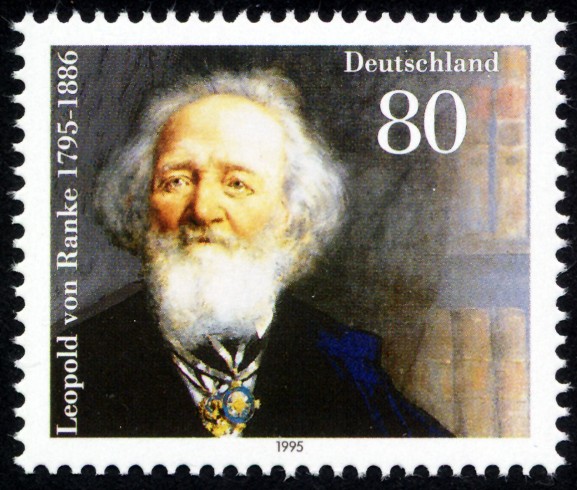 Stamp from Deutsche Post AG from 1995, 200th birthday of Leopold von Ranke